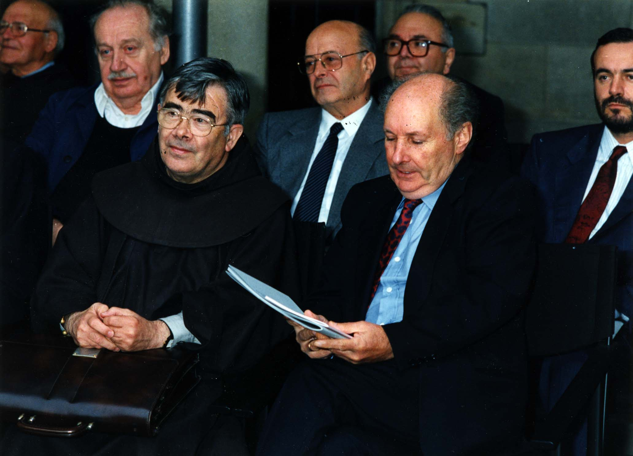 Euskaltzaindia-Basque Language Academy. Juan San Martin and Luis Villasante in 1989, in the day that Euskaltzaindia sign an agreement with Basque public institutions. Behind them, Federico Krutwig Sagredo, Patxi Altuna, Alfonso Irigoien and Pello Salaburu.